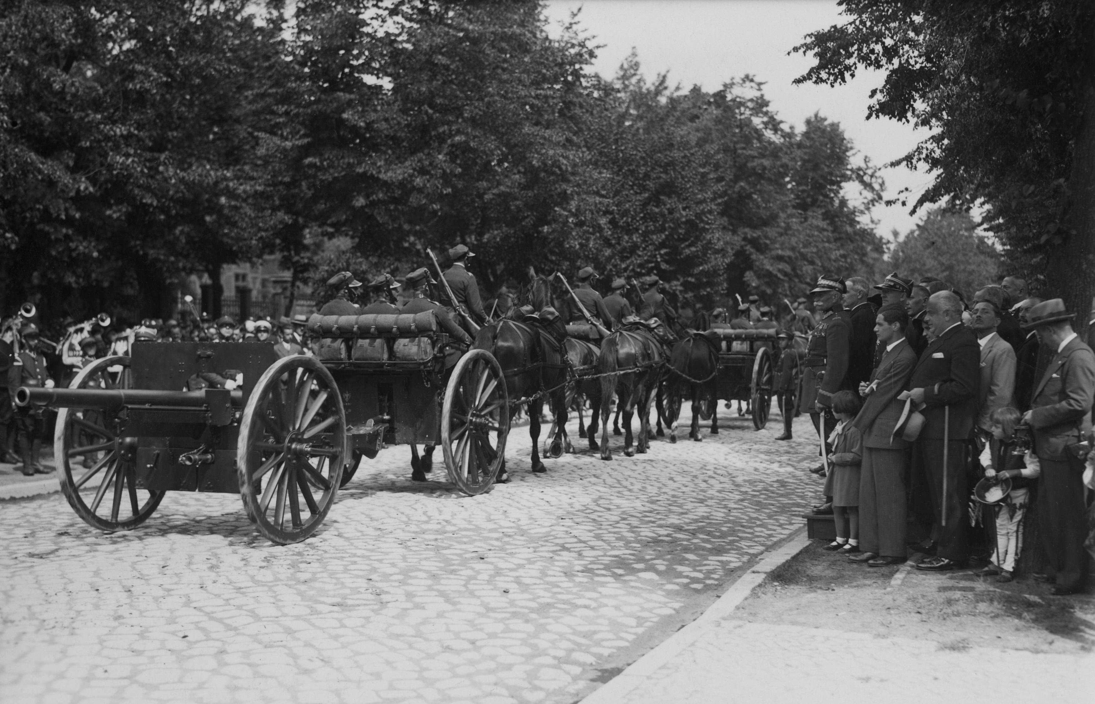 Polish 75mm wz.1897 gun on parade in Bydgoszcz.